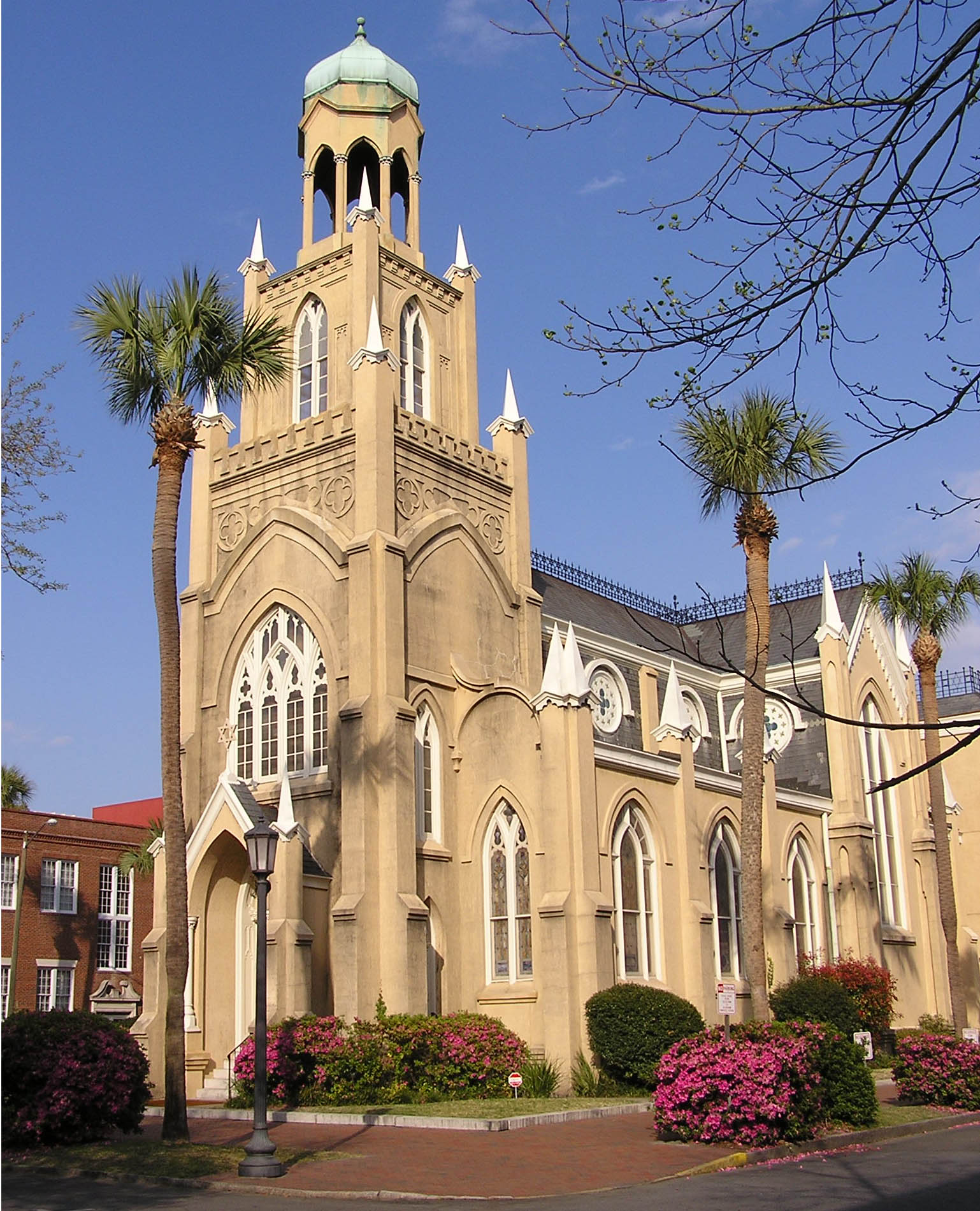 Synagogue de Savannah / Temple Mickve Israel. For a description of the temple see its web site at